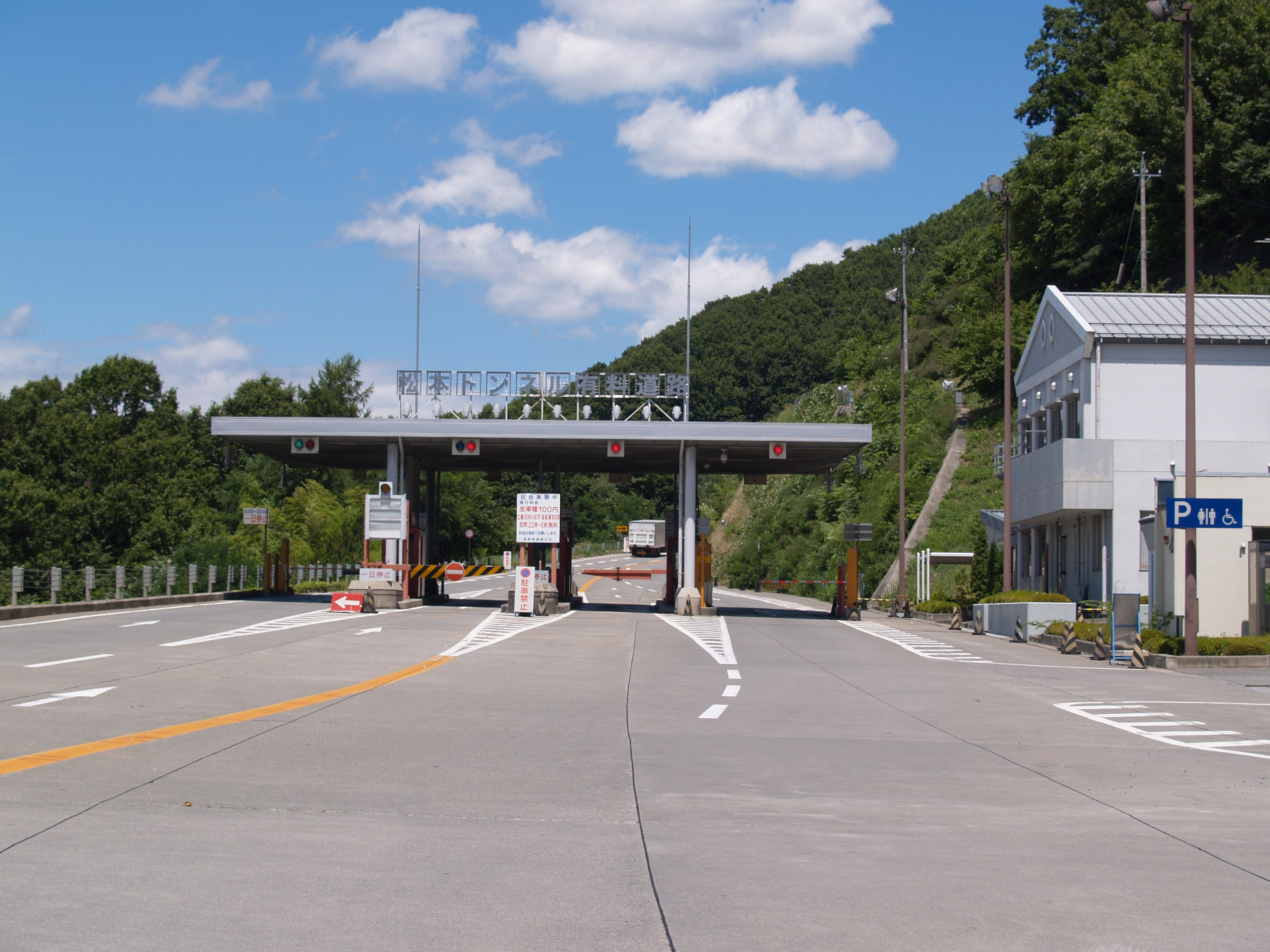 Matsumoto Tunnel Gate